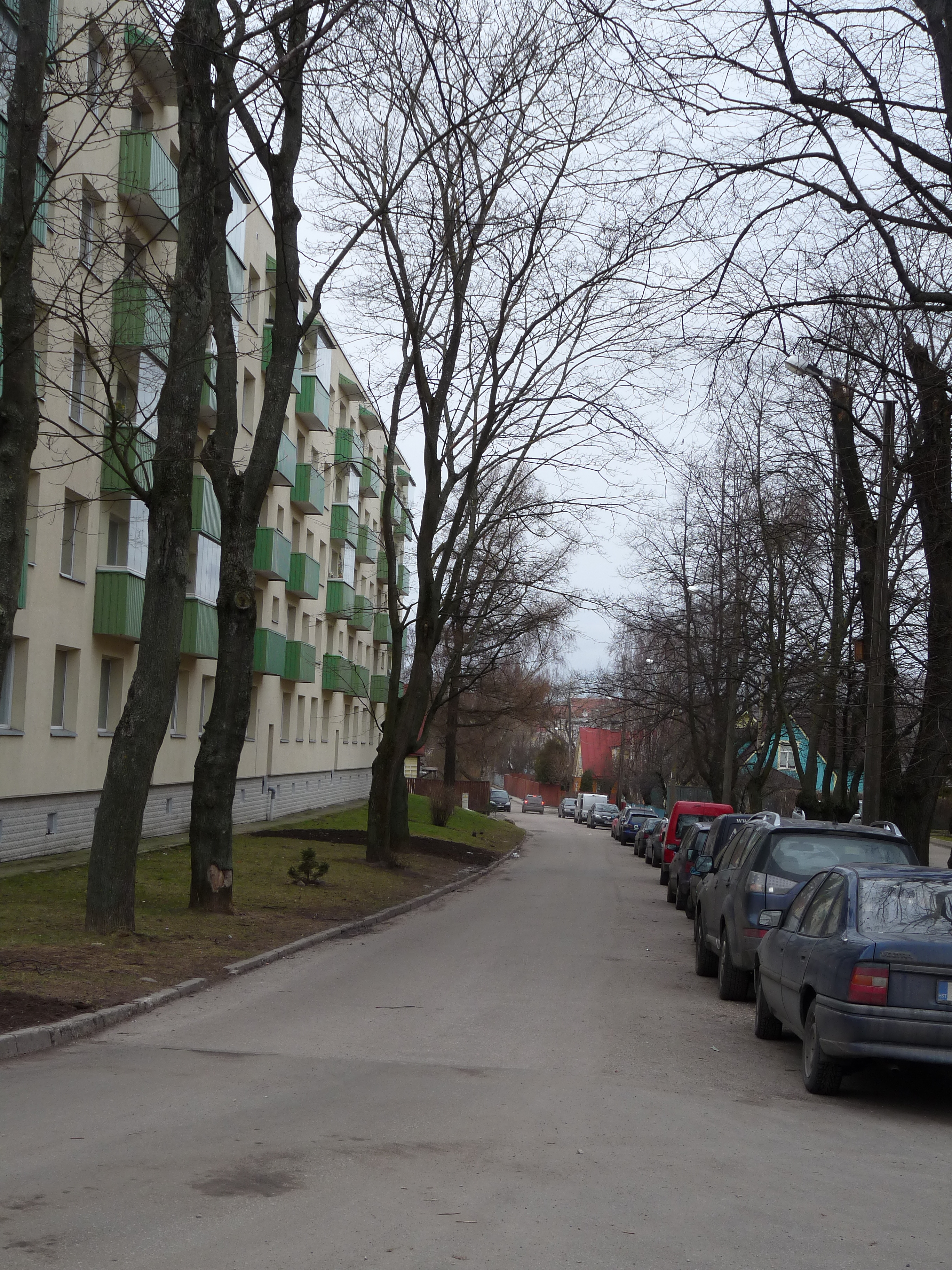 Puuvilla street in Tallinn, Estonia